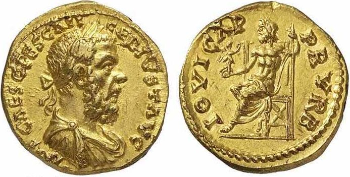 Pescennius Niger, 193-194, Aureus, Antioch.Aureus Obv: IMP CAES C PESC NIGER IVST AVG - Laureate, draped and cuirassed bust right. Rev: IOVICAPPRVRB - Jupiter seated left, holding Victory and scepter. Unlisted RIC, Calico 2406.